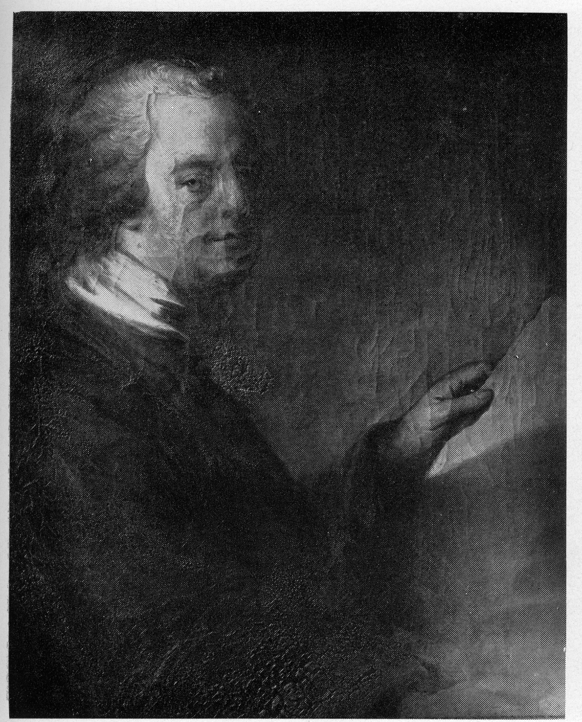 Portrait of Peder Ascanius (1723-1803), Norwegian Natural historian.